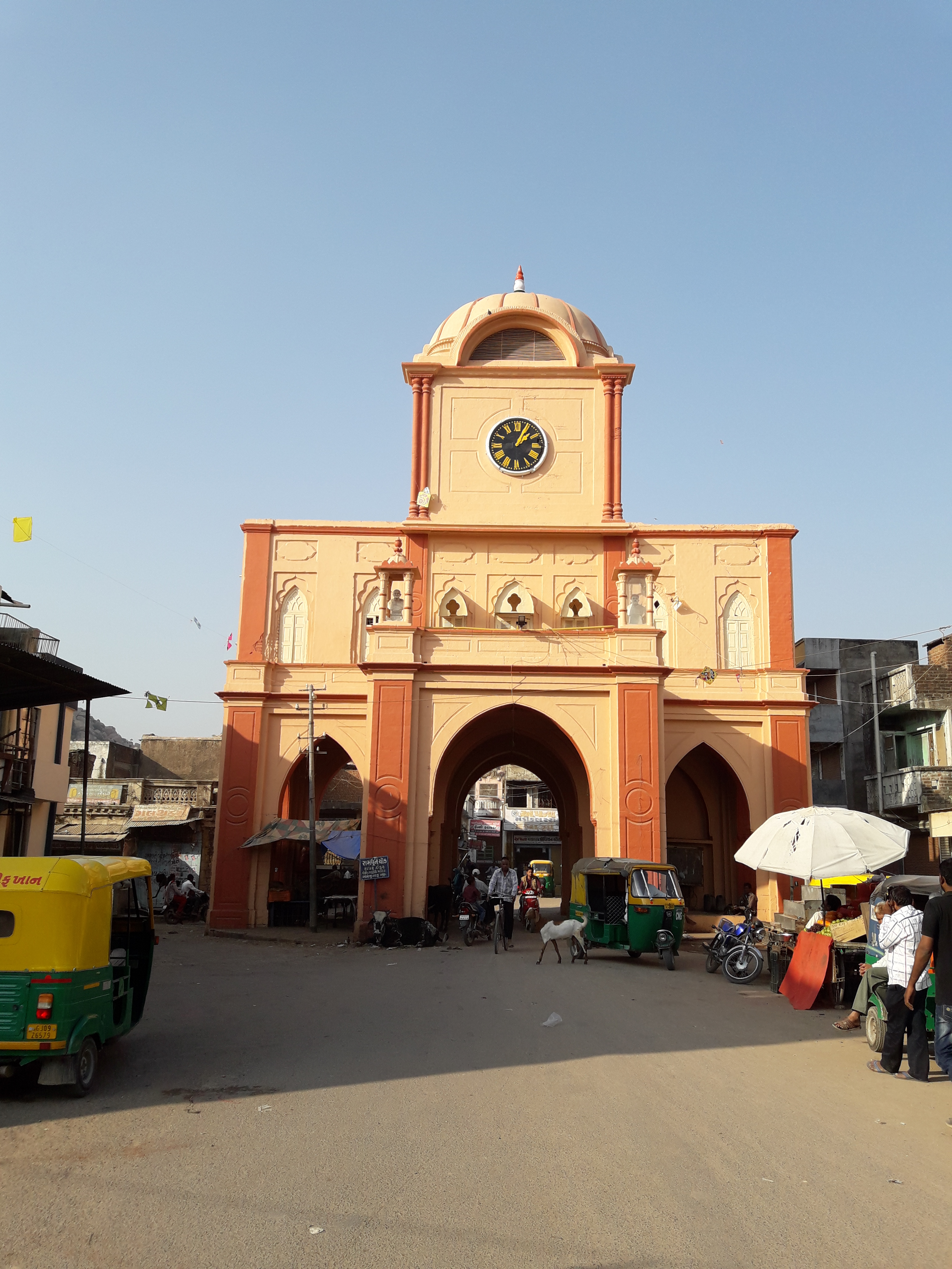 Clock Tower of Idar, Gujarat, India.